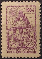 1904 stamp issued by Unió Catalanista featuring Pi de les Tres Branques, the independence star, and Montserrat